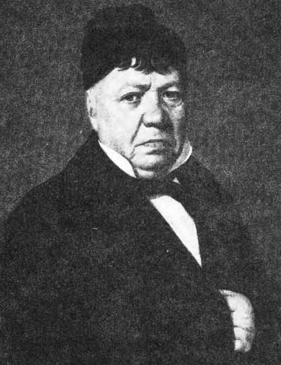 Portrait of José Antonio de La Guerra y Noriega